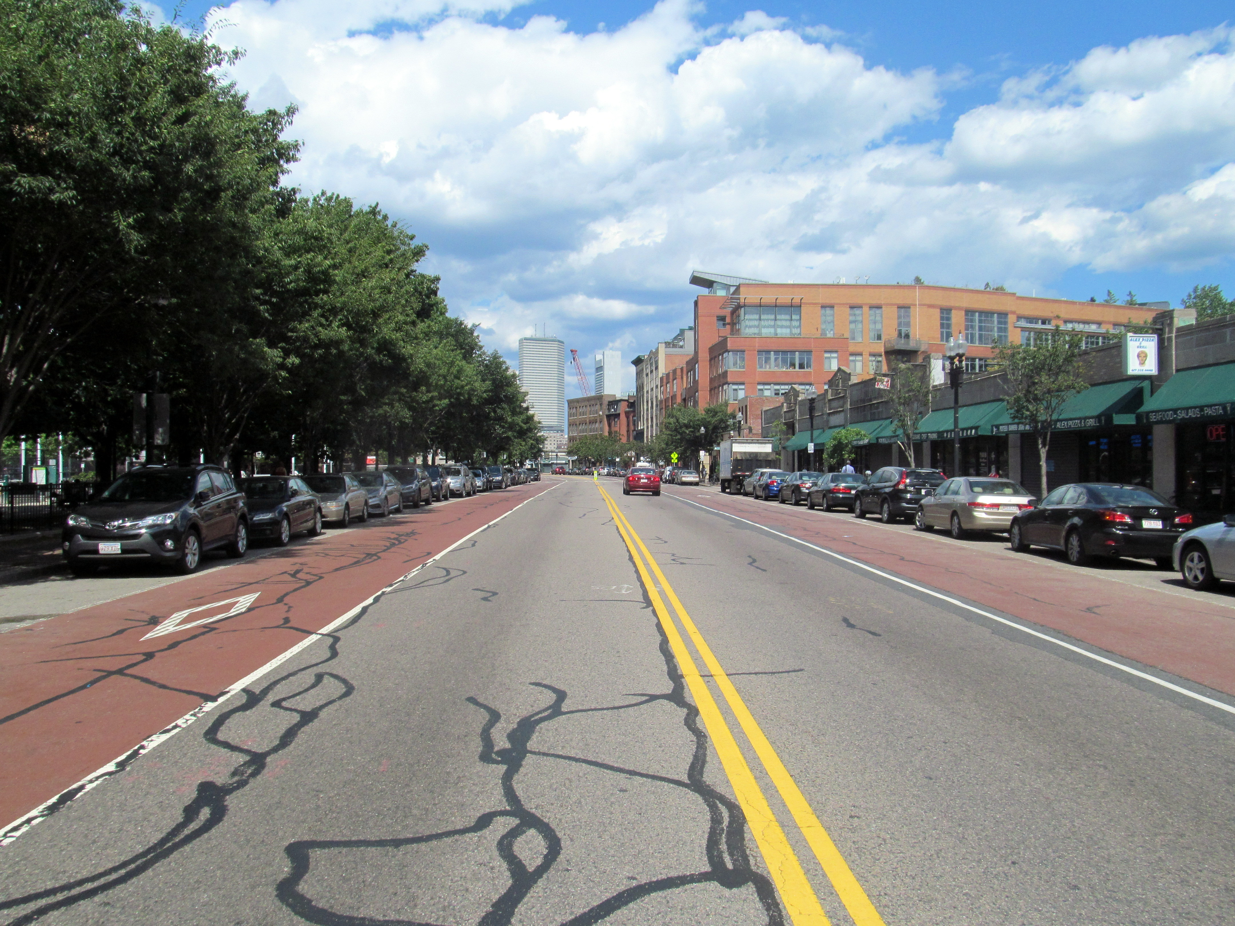 Bus lanes for the Silver Line on Washington Street in August 2016